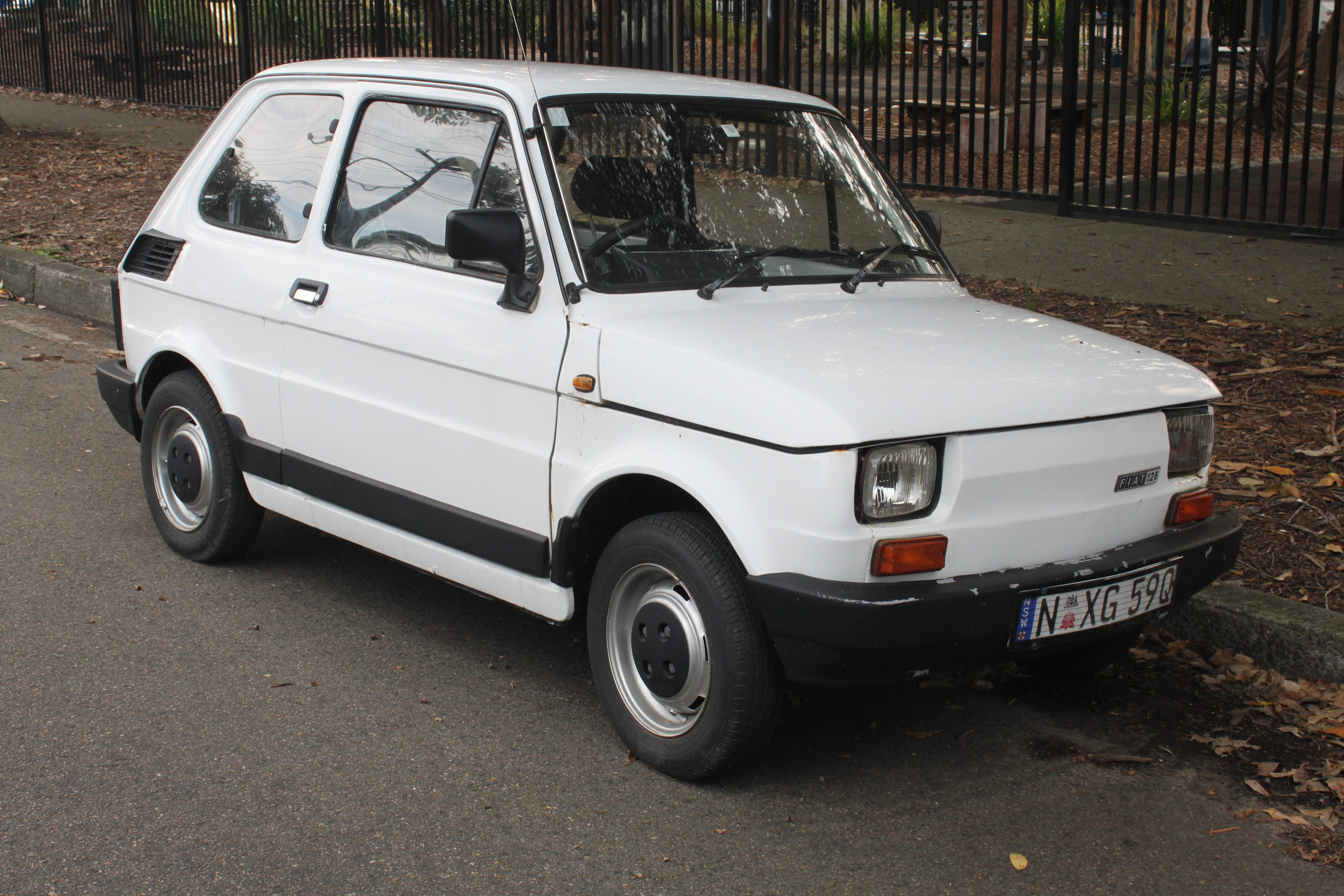 1989 FSM Niki (with Fiat badges!)